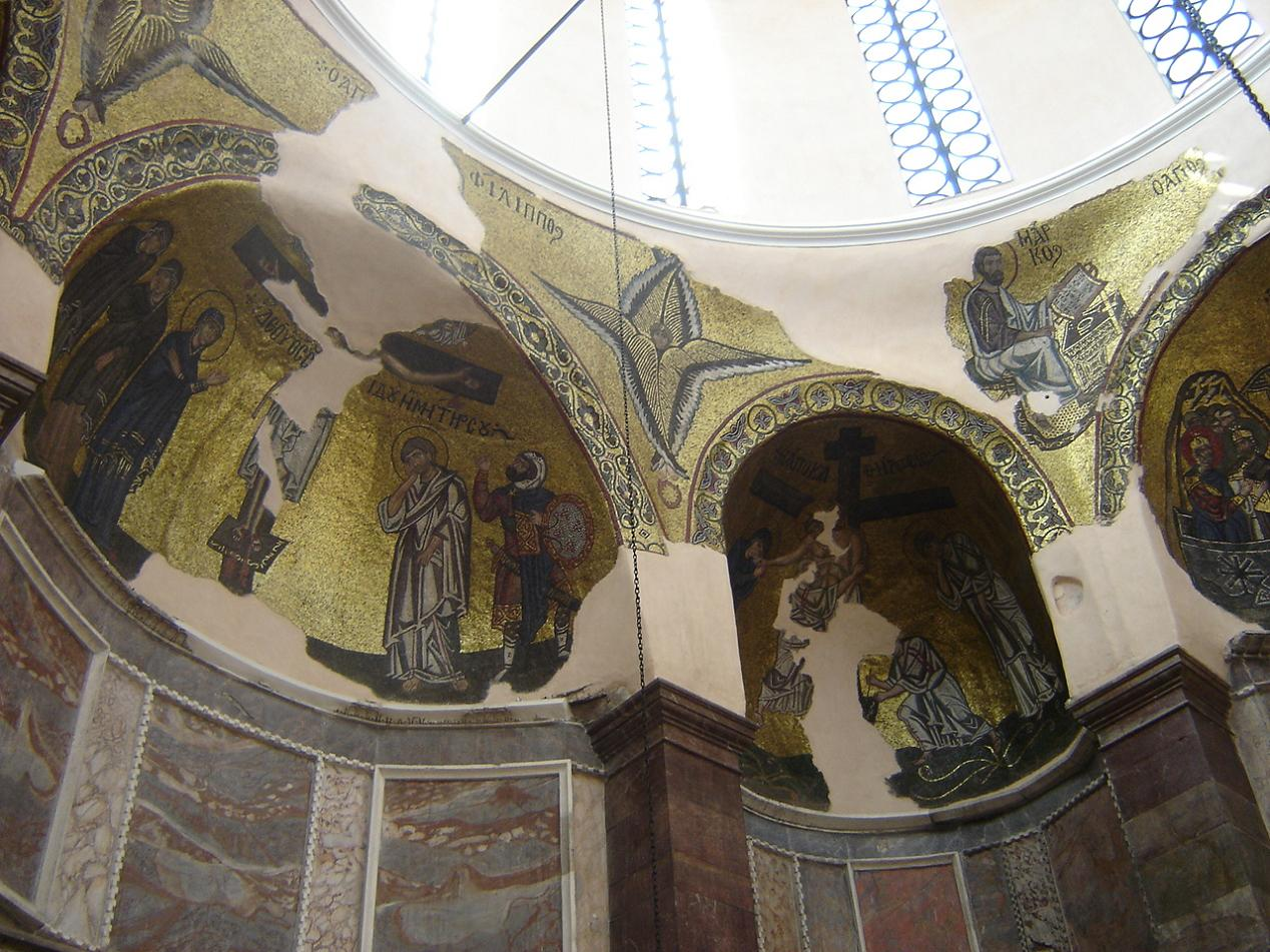 Nea Moni of Chios - church view